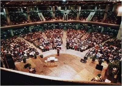 Bread of Life Central Church's Worship Gathering at its Ministry Center, Crossroad 77